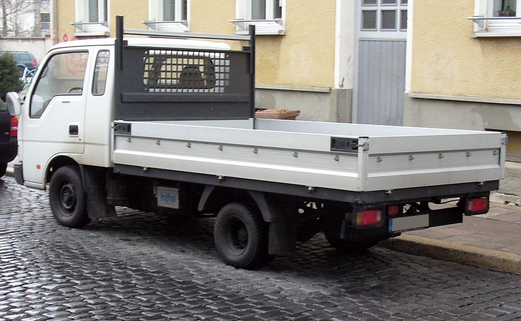 Kia K2700 (export label for the Kia Trade)